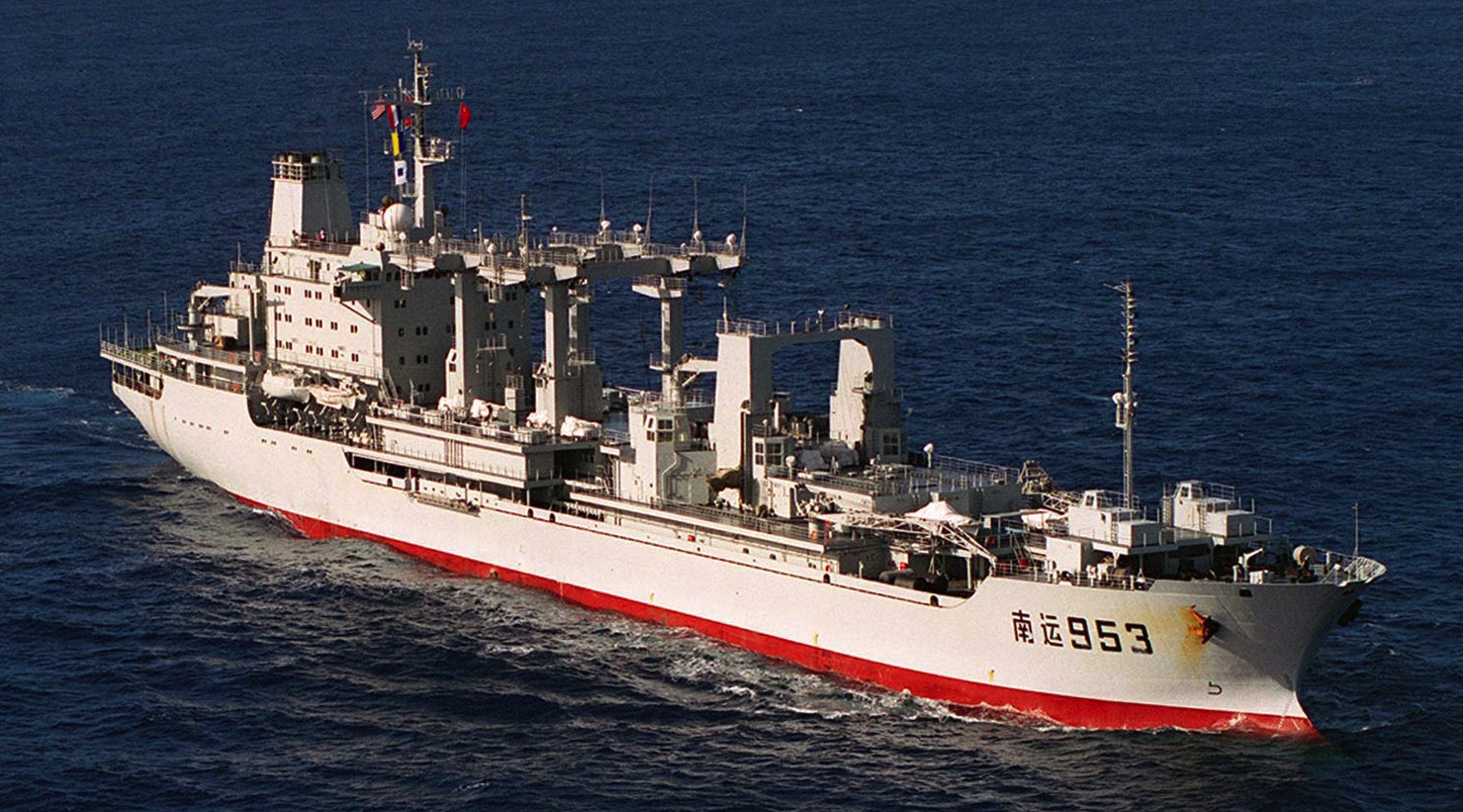 The People's Republic of China oiler Nan Sang lines up for the channel as it pulls into Pearl Harbor, Hawaii, on March 9, 1997. Nan Sang and two other People's Republic of China ships are visiting Hawaii for the first part of a scheduled goodwill visit between the U.S. and Chinese navies. The ships will continue on to San Diego, Calif., for a first ever visit by People's Republic of China Navy ships to the mainland U.S. The U.S. and the People's Republic of China navies are the two largest fleets in the Asia-Pacific region. Interaction between the two navies increases mutual understanding and confidence. During the visits, Chinese sailors will have the opportunity to meet their U.S. Navy counterparts, tour U.S. ships, experience American culture in Hawaii and Southern California, and learn about the United States.